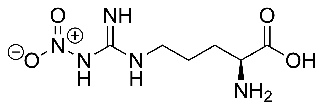 chemical structure of Nω-Nitro-L-arginine